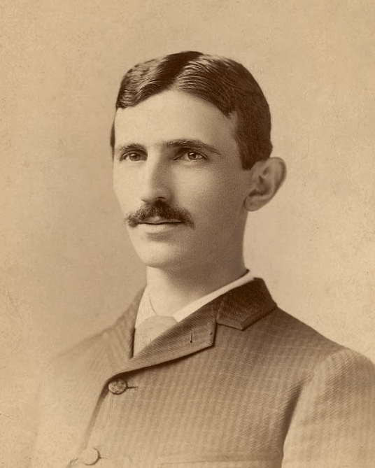 Cabinet photo of Tesla in a head-and-shoulders pose, signed and inscribed in the lower left in black ink, “To Gaston Tissandier, with sincere regards, from Nikola Tesla.”